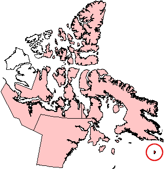 Base image created by Keith Edkins as GFDL, modified by Tim Vasquez.